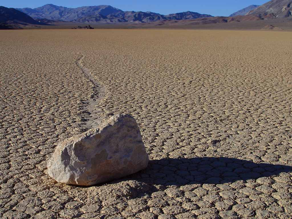 Beschreibung: Stein auf dem Racetrack im Death-Valley-Nationalpark. Datum: 23.8.2003 Fotograf: Jon Sullivan Quelle: Lizenz: Public Domain (This image is public domain. You may use this image for any purpose, including commercial.)